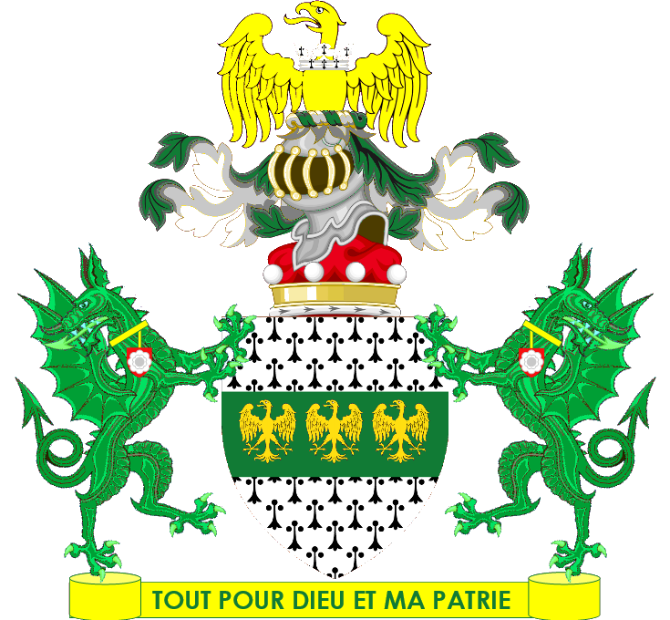 The armorial achievement of The Lord St Oswald